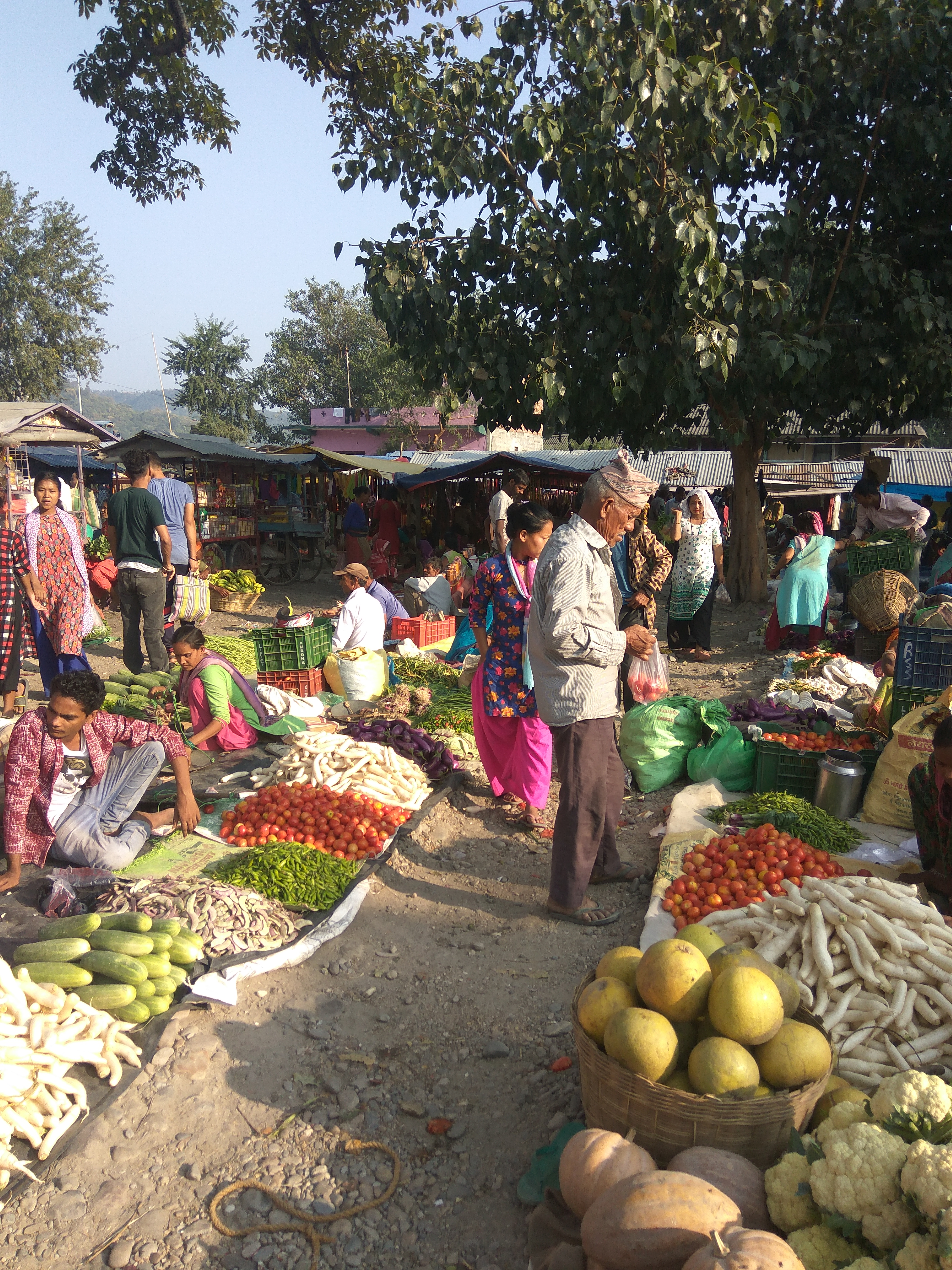 A once in a week haat bazaar (local market) at Paurai, Rautahat, Nepal.